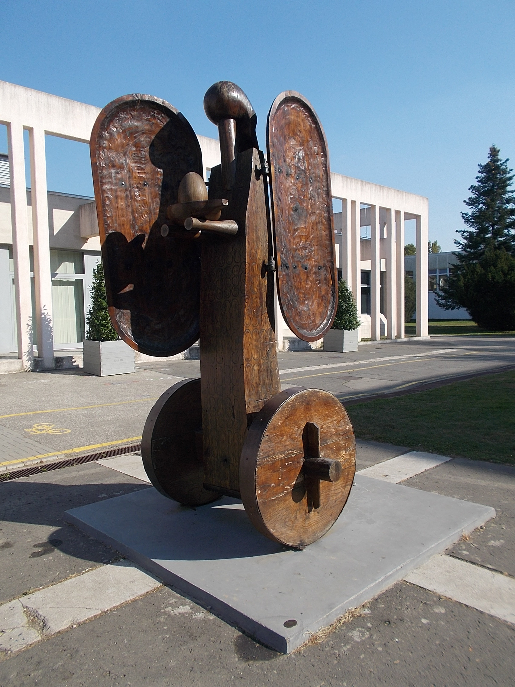 Pogány mythology (Orther name: Life, Or: Poor Madonna, Or: Turquoise winged angel) by Géza Samu, (1979 wooden statue, in 1994 renovated by Géza Ferenc Varga, in 2017 renovated by Attila Lückl) The wooden sculpture wings can be moved. The figure holds a bowl of egg, which is the symbol of genesis. - Hunyadi tér, Dombóvár, Tolna County, Hungary.